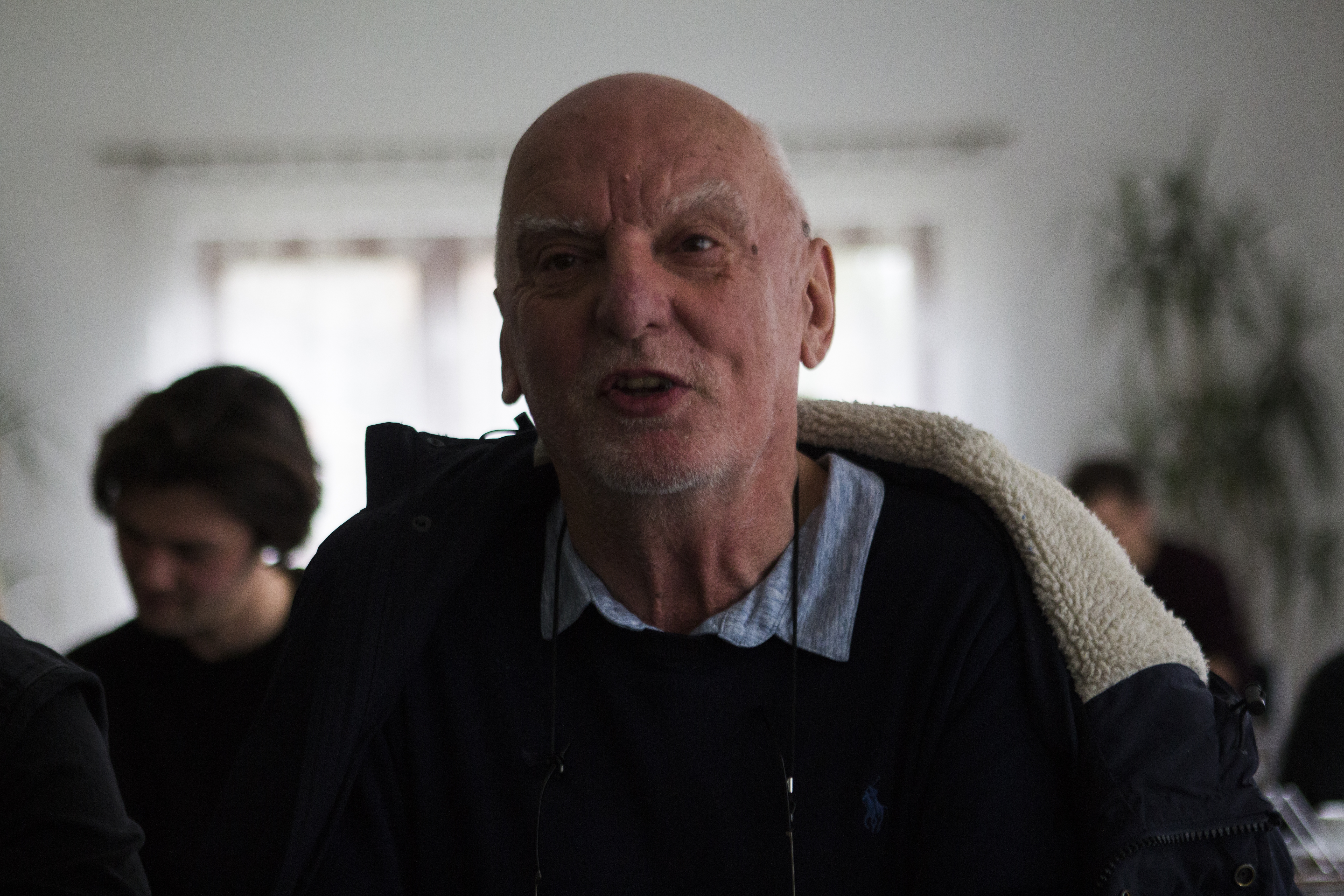 Tomasz Gizbert-Studnicki, Polish jurist, professor of legal sciences specializing in legal theory, during the extern seminar "Diversity of views on the law: from normative to discursive" organized by the Student Club of Philosophy of Law, Student Club of the History of Doctrines and the Student Club of Legal Logic of the Society of the of the Association of Law Students' Library of the Jagiellonian University (TBSP) in Węgierska Górka (15-17 March 2019).